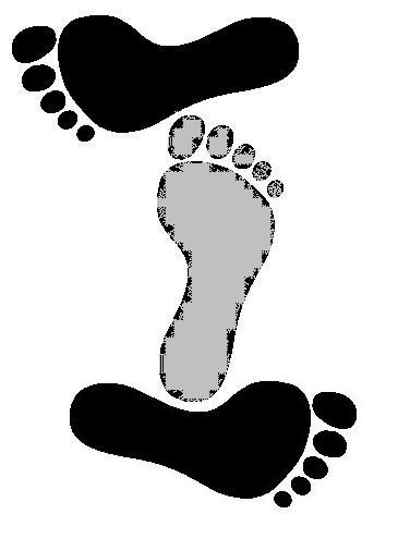 Fourth position of the feet in Ballet